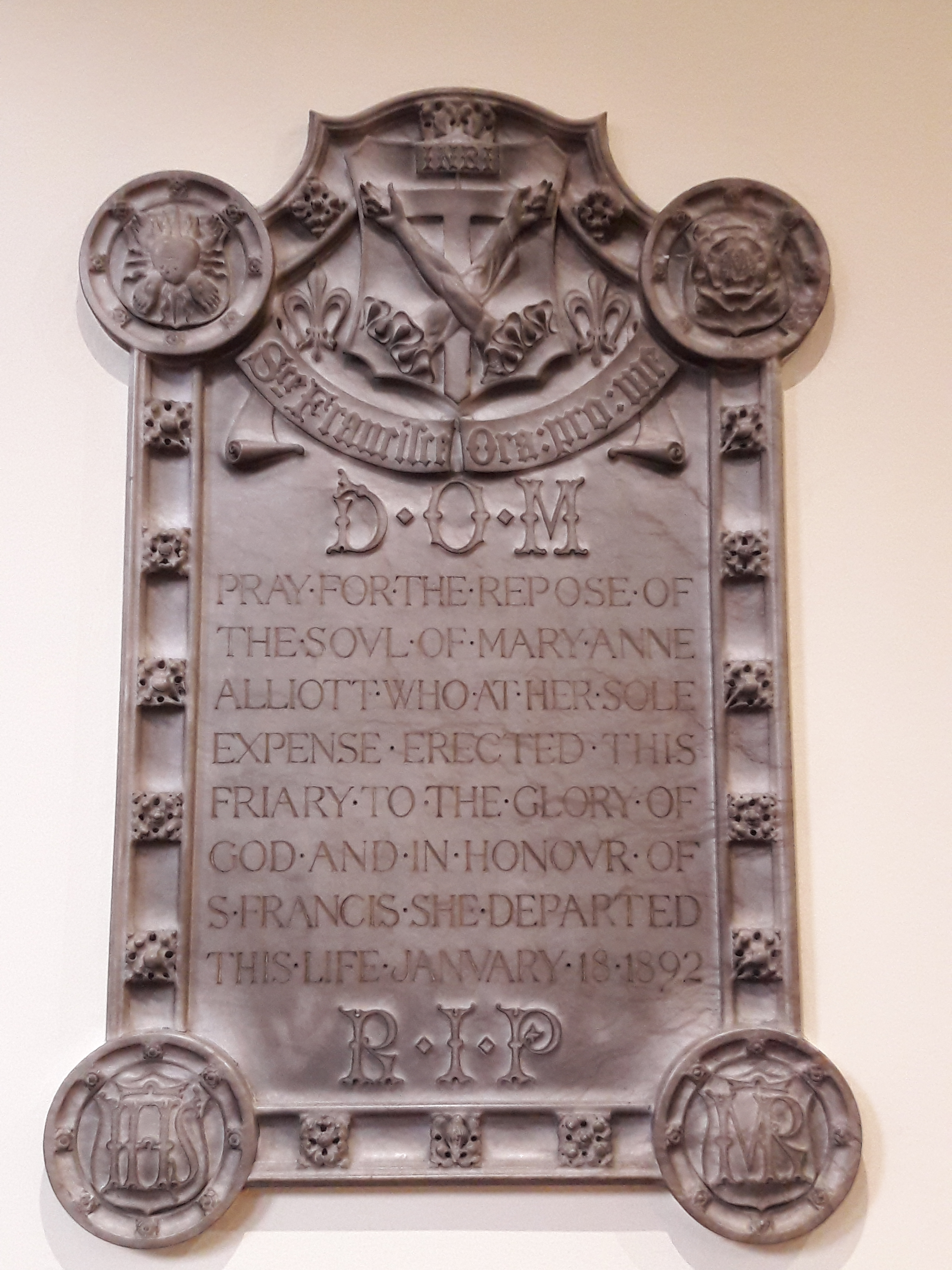 Plaque dedicated to Mary Anne Alliott, benefactor of St Francis' Friary in Chilworth, Surrey, a Franciscan Friars Minor (OFM) novitiate, which later became St Augustine's Subiaco Benedictine Abbey.